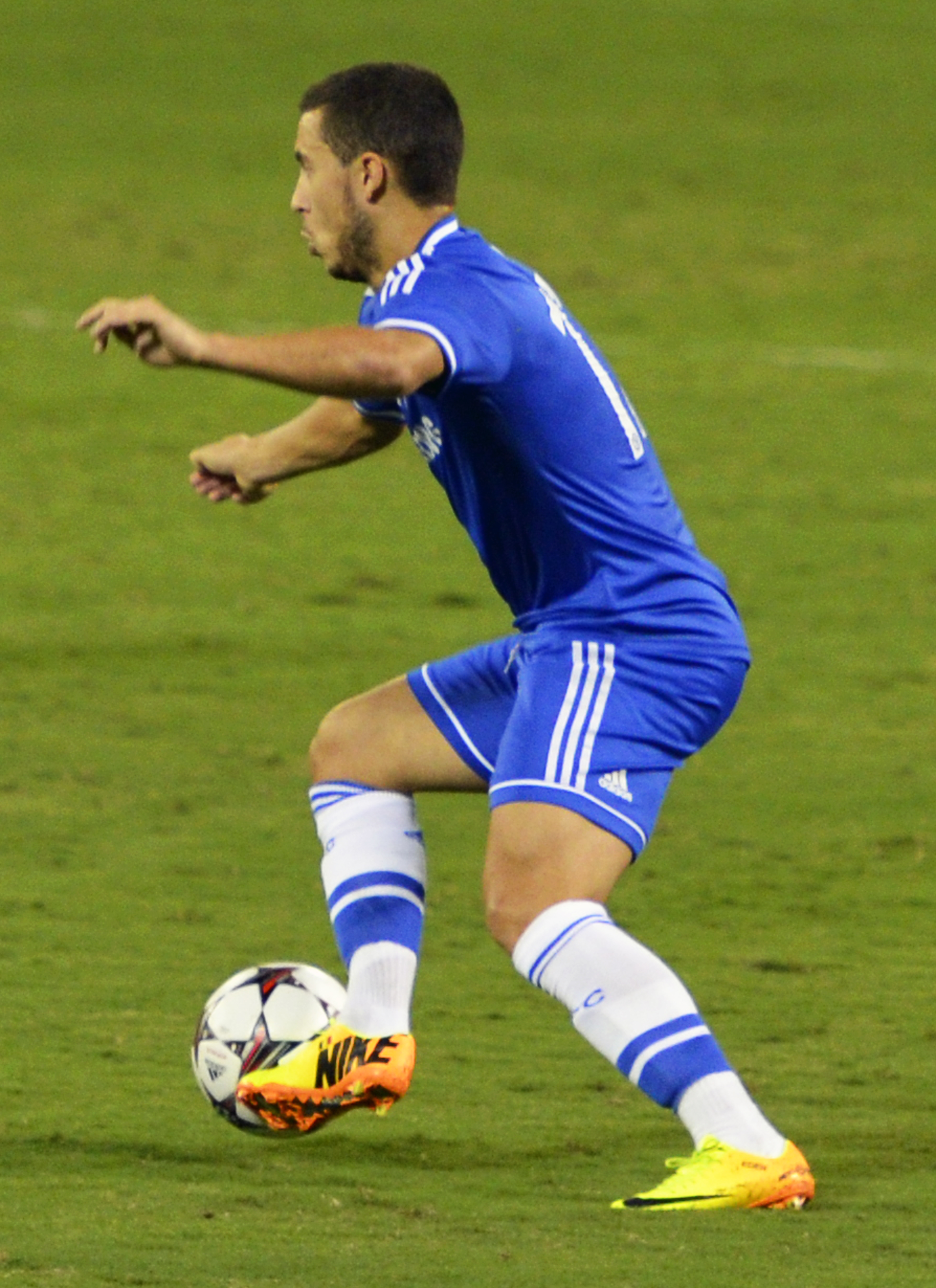 Eden Hazard Chelsea vs AS-Roma 10AUG2013